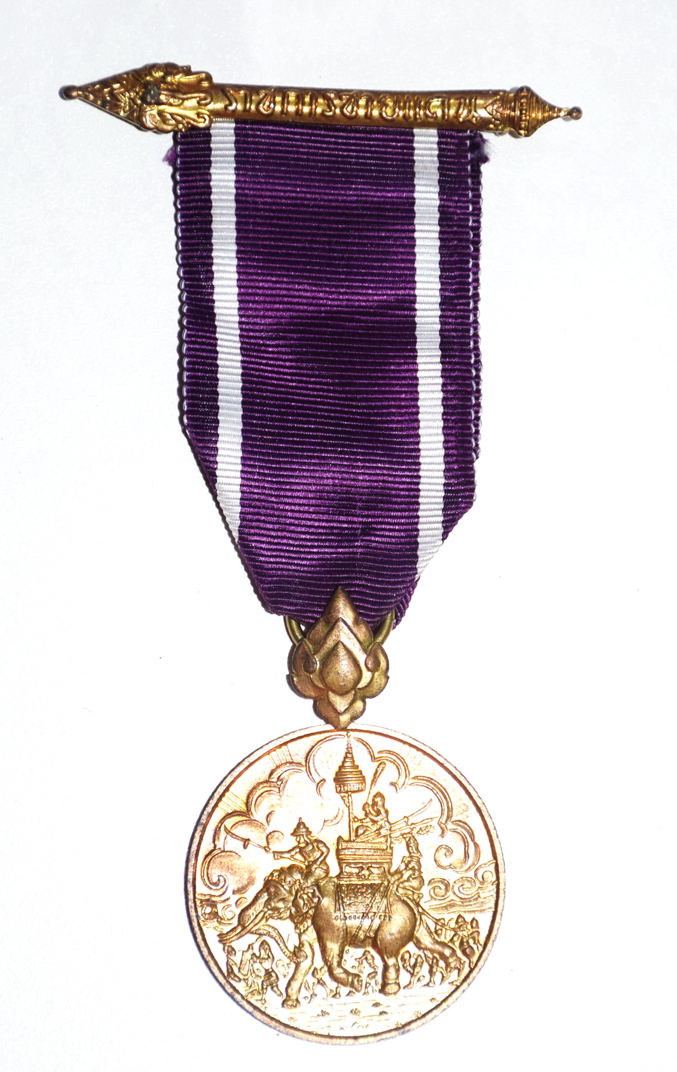 Border Service Medal (Thailand) in Wat Kungtapao Local Museum. at Wat Khung Taphao, Ban Khung Taphao, Khung Taphao subdistrict, Mueang Uttaradit, Uttaradit Province, Thailand.